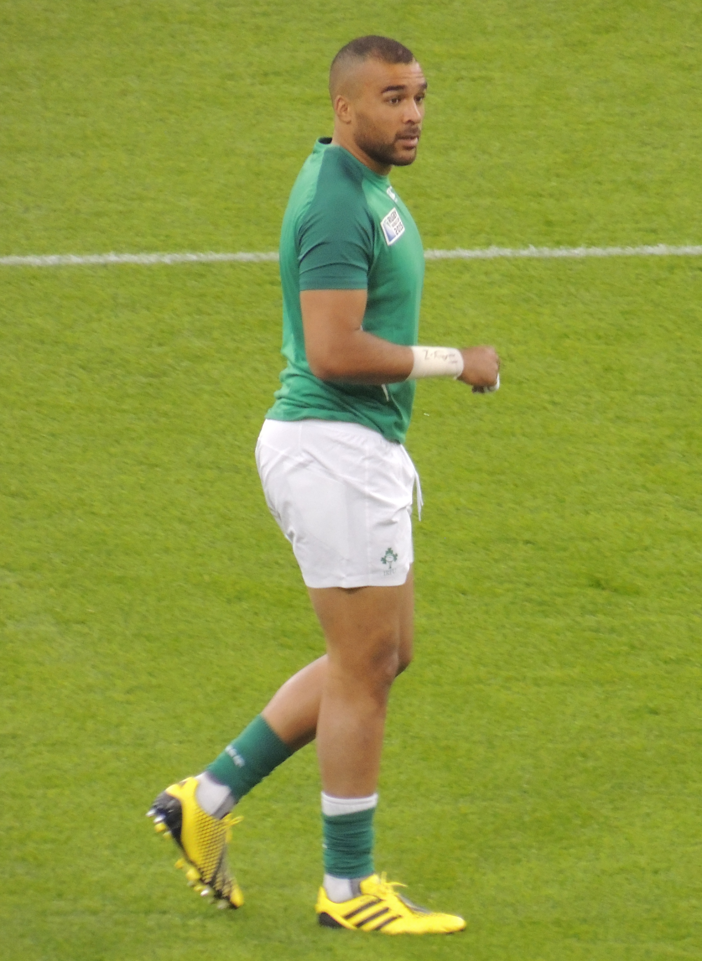 Irish rugby union player Simon Zebo playing in 2015 Rugby World Cup game Ireland vs Canada at Millennium Stadium in Cardiff.